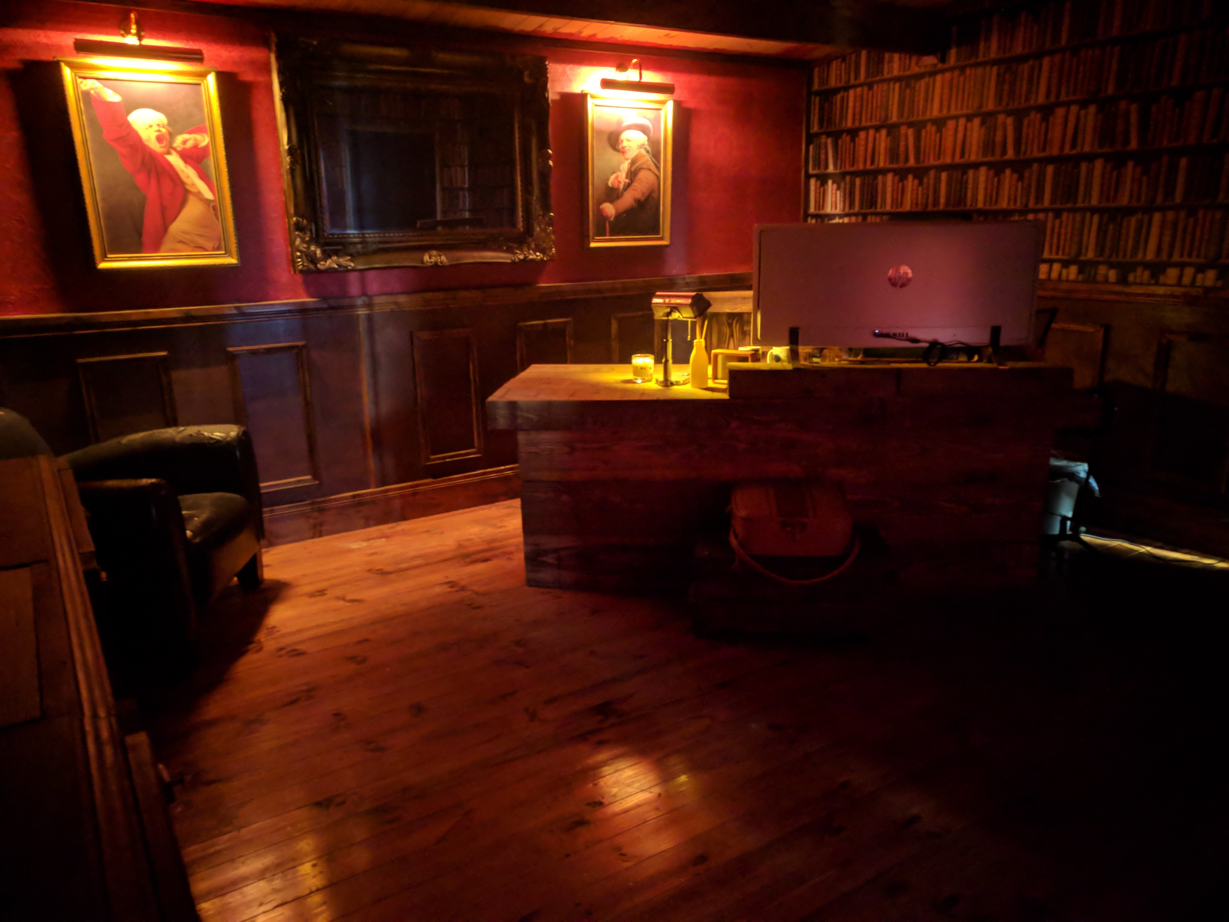 A more refined looking Man Cave, serving as a home office.